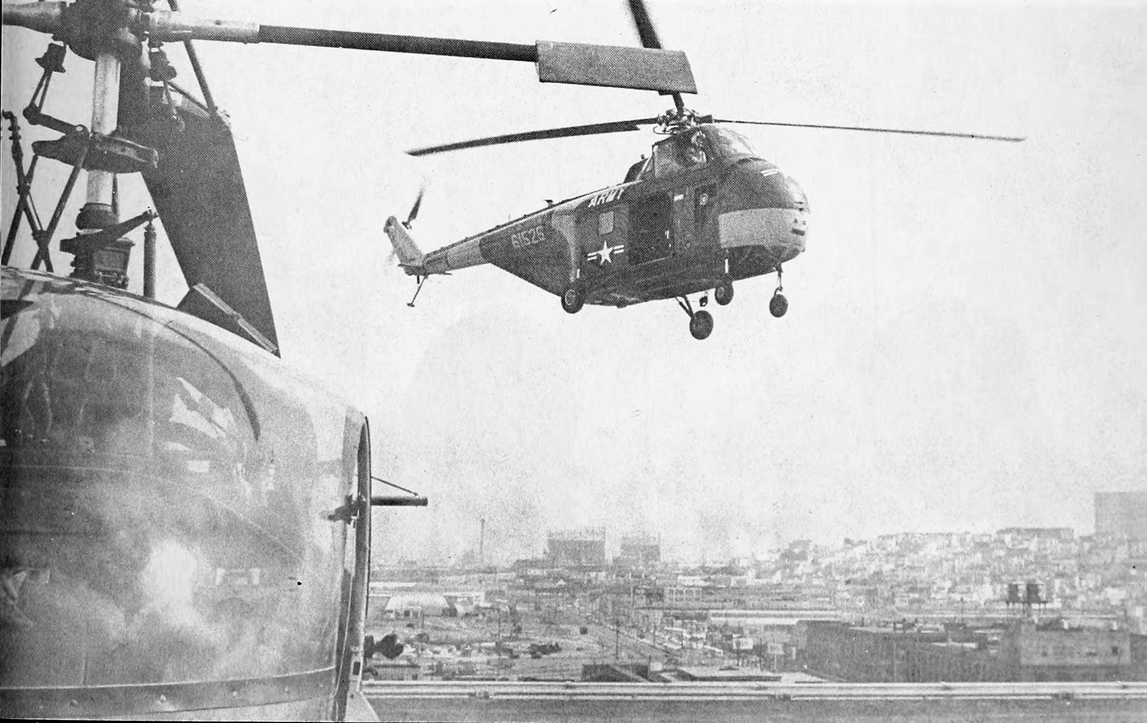 Page 145 from the "128 Hours" report.